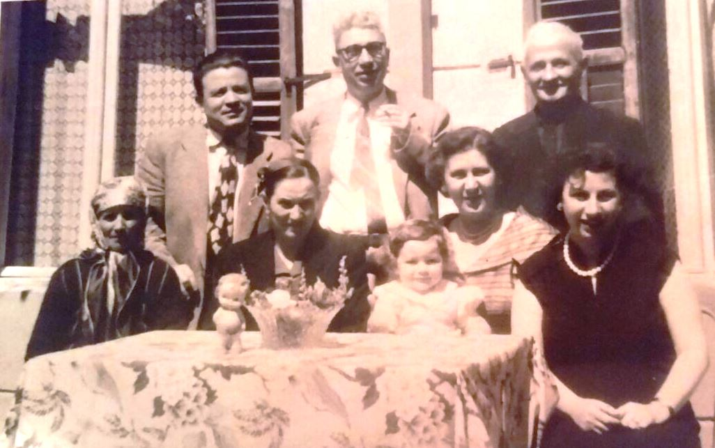 Abravanel and Rezniqi family-Arslan and Mustafa in 1957. Credit: For the commemoration of Dr. Salvator and Reni Levy, the Abravanel and Levy Families, and the community of Macedonian Jews.